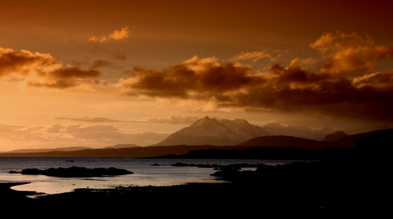 The sun has set behind the Black Cuillin, viewed from Tarskavaig, Sleat, Isle of Skye